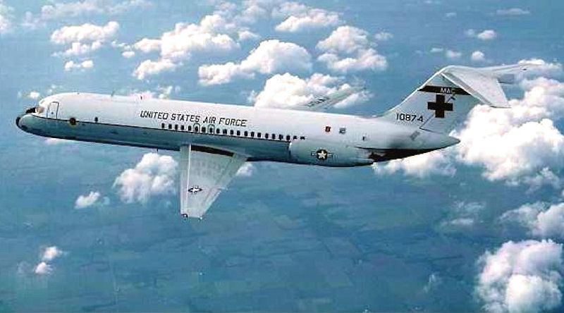 75th Airlift Squadron C-9 Nightengale